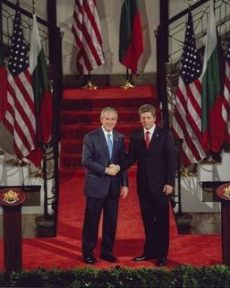 President Bush Official visit to Bulgaria, June, 2007 - US Embassy Sofia Bulgaria, from official White House photographer